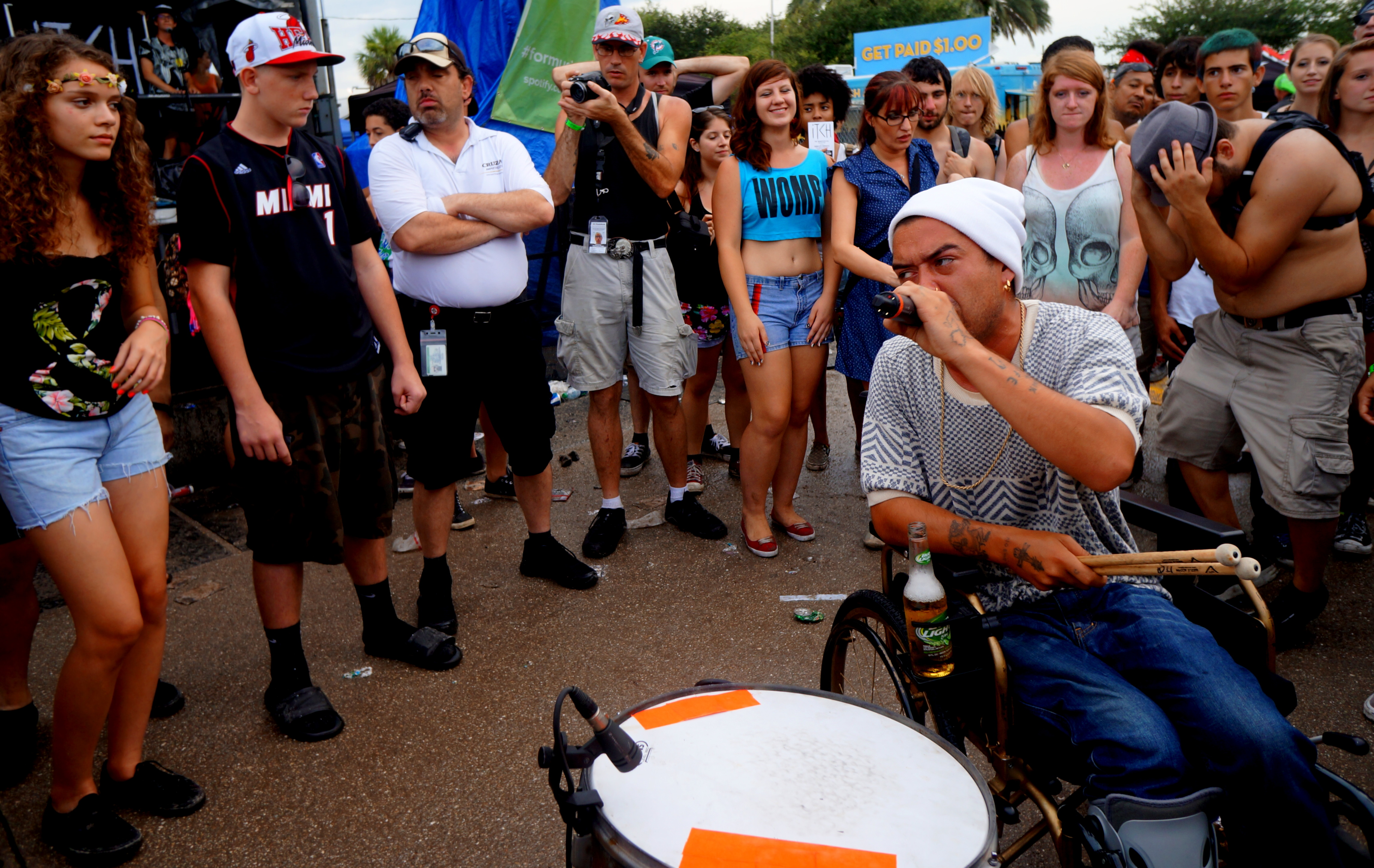 UK Rapper Itch performing at the Vans Warped Tour in West Palm Beach, Florida.